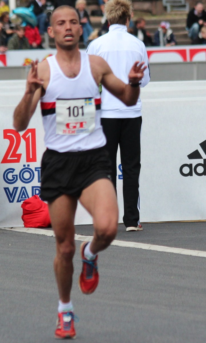 Adil Bouafif finishing the 2012 Göteborgsvarvet.